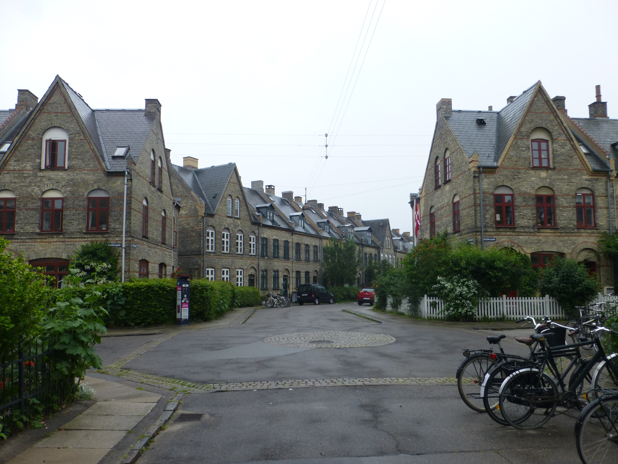 The street Jerichausgade at Küchlersgade in the area Humlebyen in Vesterbro in Copenhagen.